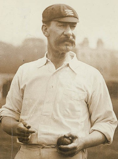 (Original text: Albert Trott (1873–1914), Australian and English cricketer)